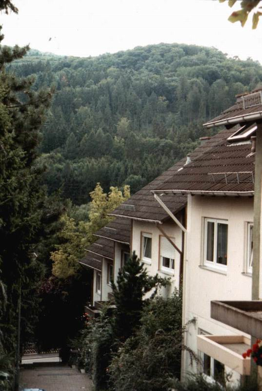 Suburban hillside homes in Fischbach, a western suburb of Frankfurt am Main.